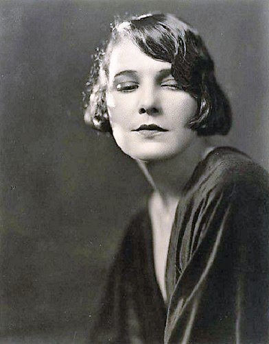 Leatrice Joy